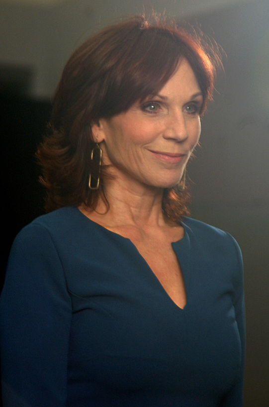 Marilu Henner attending the AARP's 2011 Life@50+ National Event and Expo in September 2011.